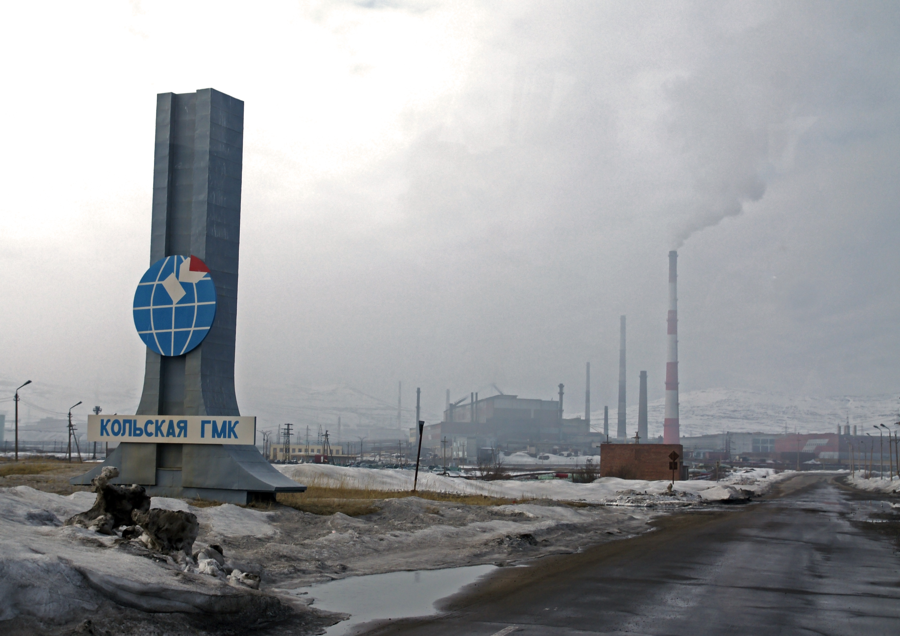 The factory in Monchegorsk.